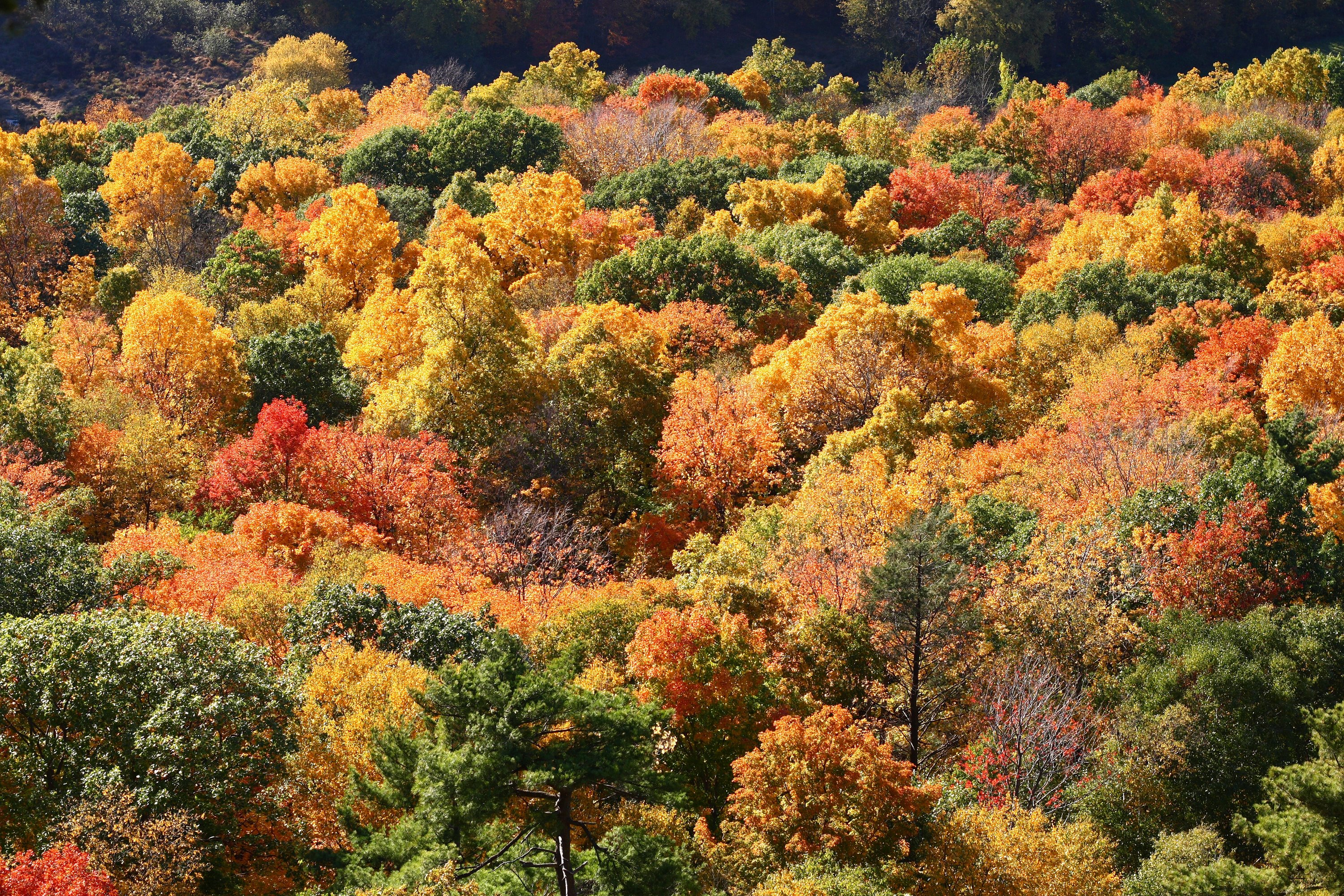 Autumn foliage seen from the ridge line in Talcott Mountain State Park in Connecticut